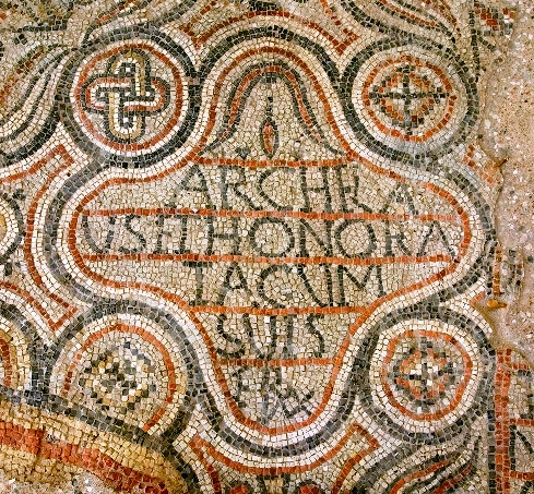 One donor inscription in the mosaic floor baptistery: »Archelaus et Honorata cum suis f(ecerunt) p(edes) XX« The inscription says that Archelaus and Honorata with their closest made ​​to do 20 feet (the mosaic).